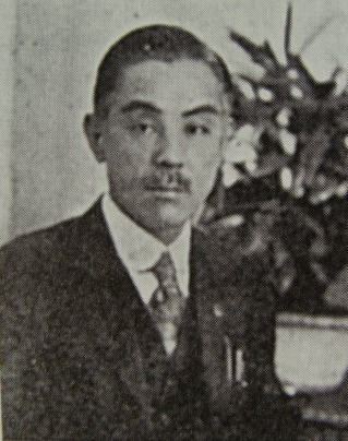 Japanese industrialist, Yanase, Chōtarō(1879-1956)